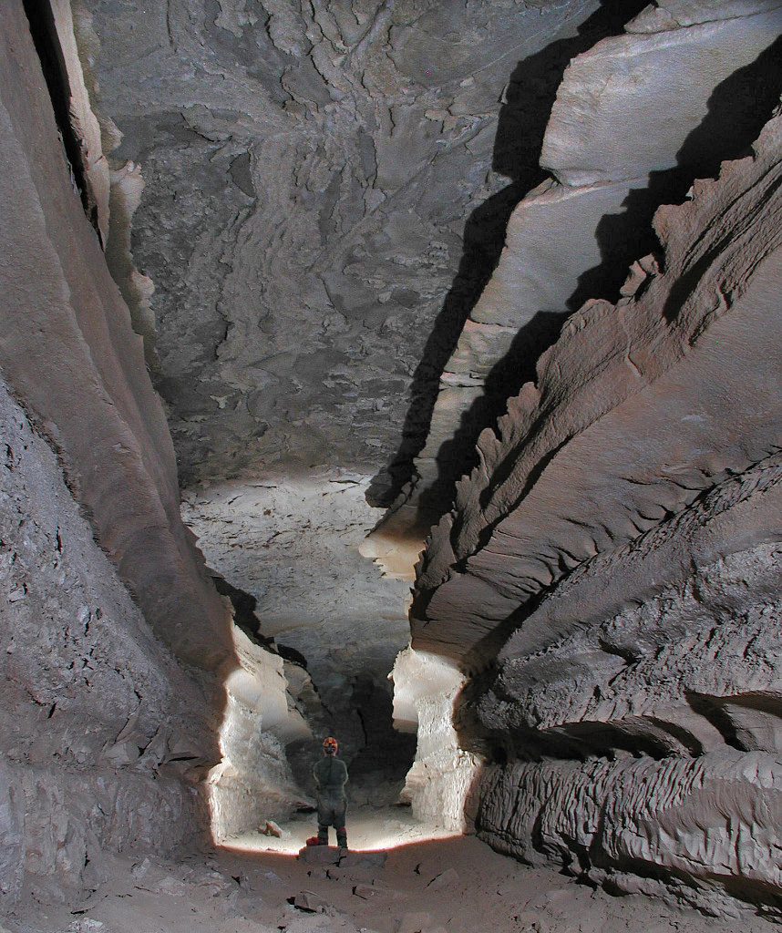 Photo by Dave Bunnell of canyon passage in Mammoth Cave These flat-ceilinged passages are typical of the cave. This passage is vadose in origin, meaning it has been enlarged and downcut by running water after the initial cave passage formed.